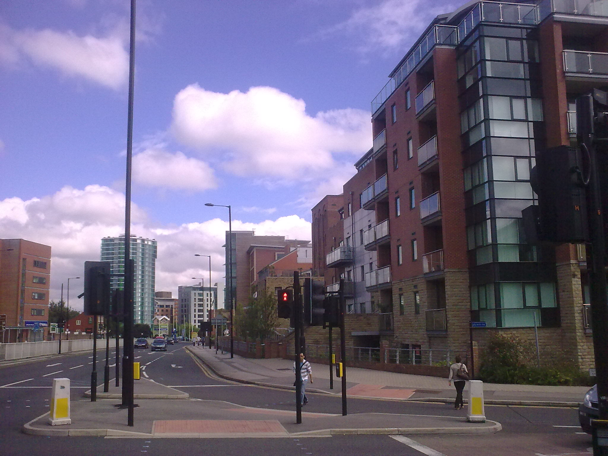 New development on the site of the old Ward's Brewery in Sheffield, England.